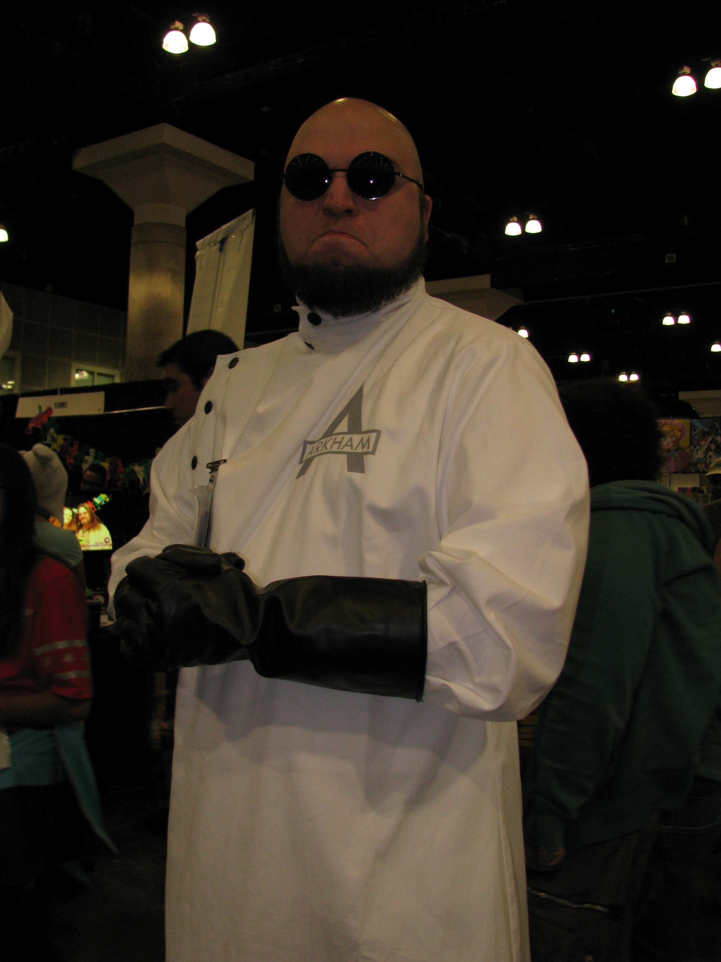 Cosplay of Huge Strange from Batman: Arkham City